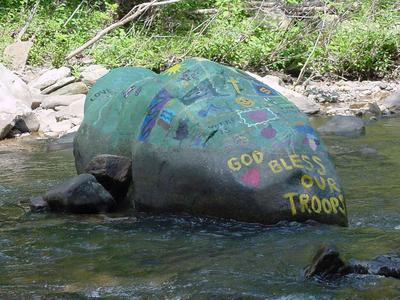 The Rio Turtle in the North River near Rio, West Virginia, United States.